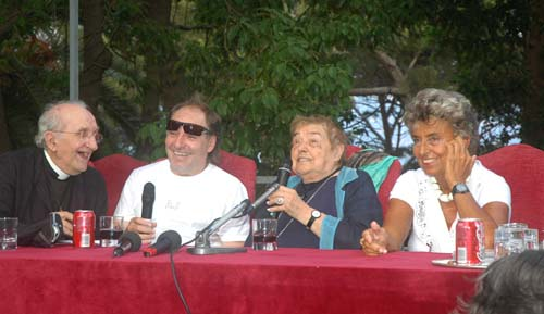 Don Andrea Gallo, Vasco Rossi, Fernanda Pivano, Fiorella Minervino